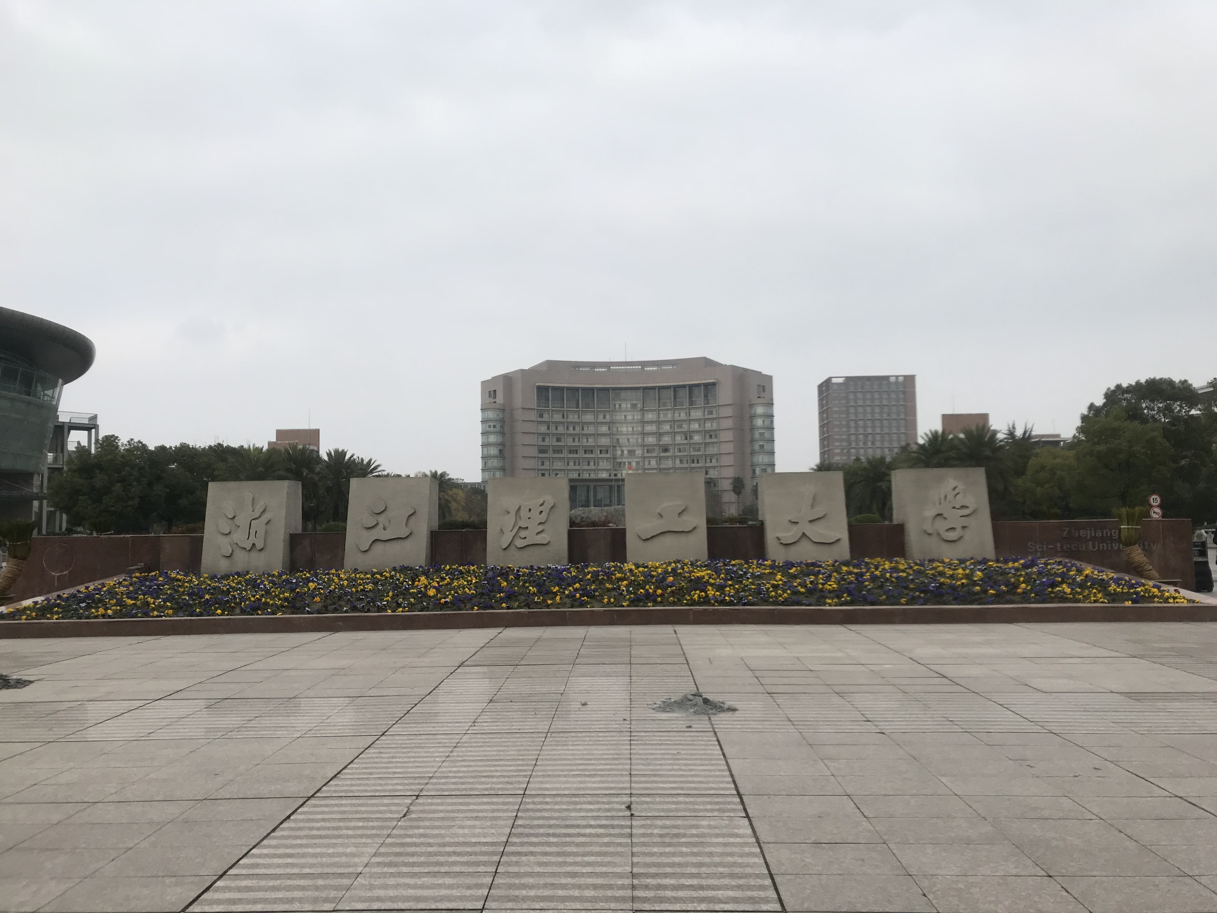 202001 Gate of Zhejiang Sci-Tech University